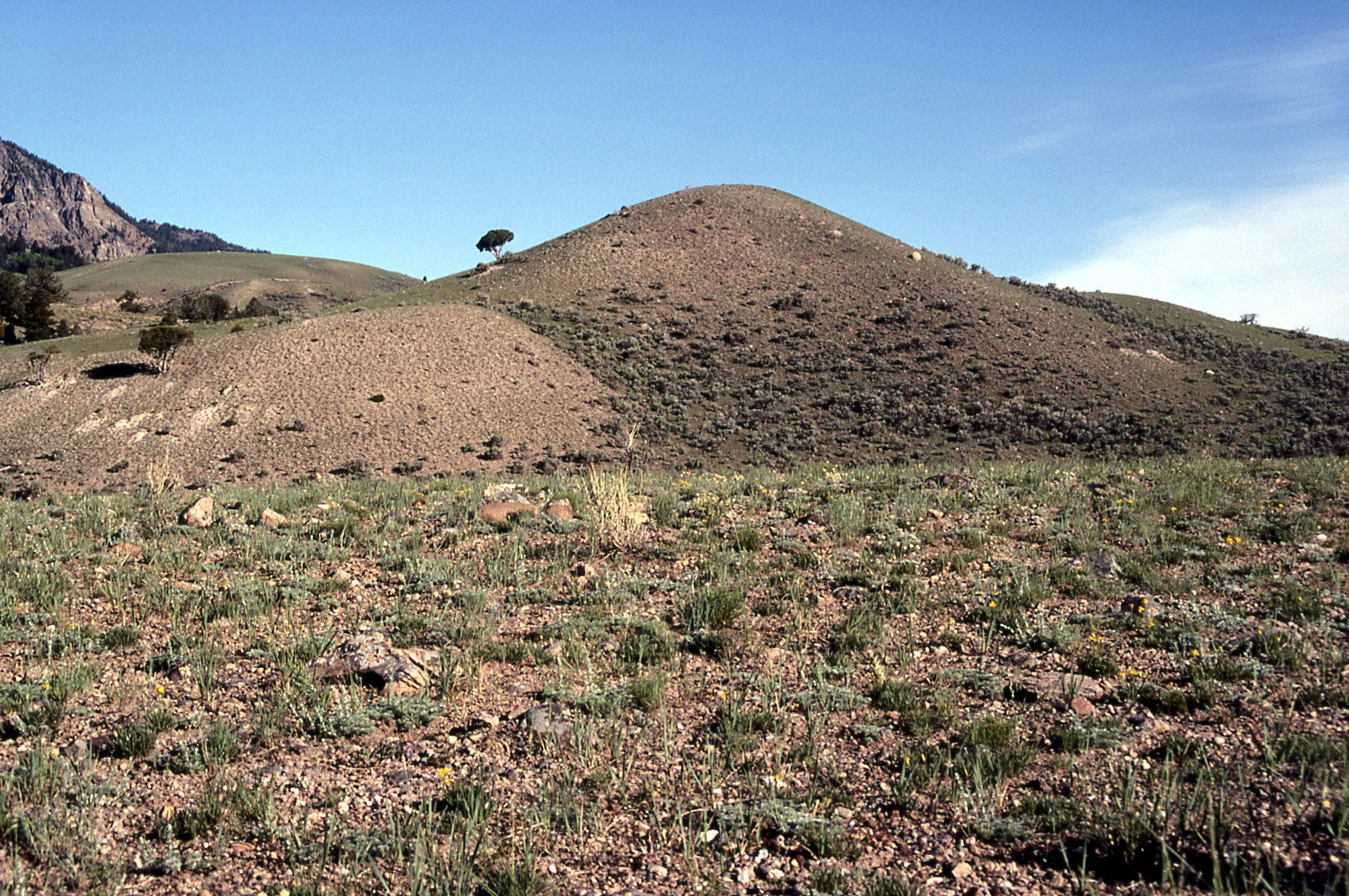 Dude Hill, a glacial kame, in Yellowstone National Park in Wyoming, USA.